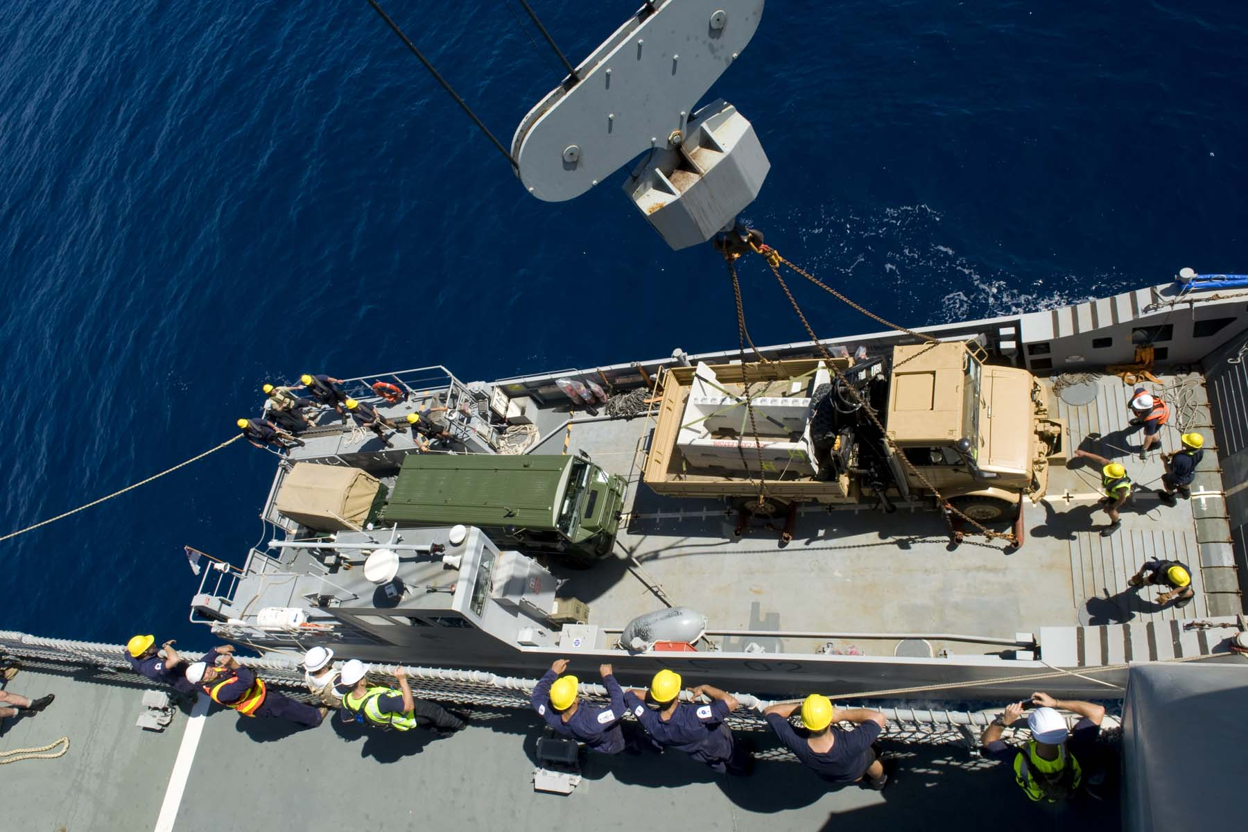 Pacific Partnership 2011, The Navy and Army work together to offload key materials for the task at NTT using on of their ships crain. The Landing Craft Medium (LCM) is loaded with vehicles to be taken over to NTT. 20110413_PH_T1015674_0015